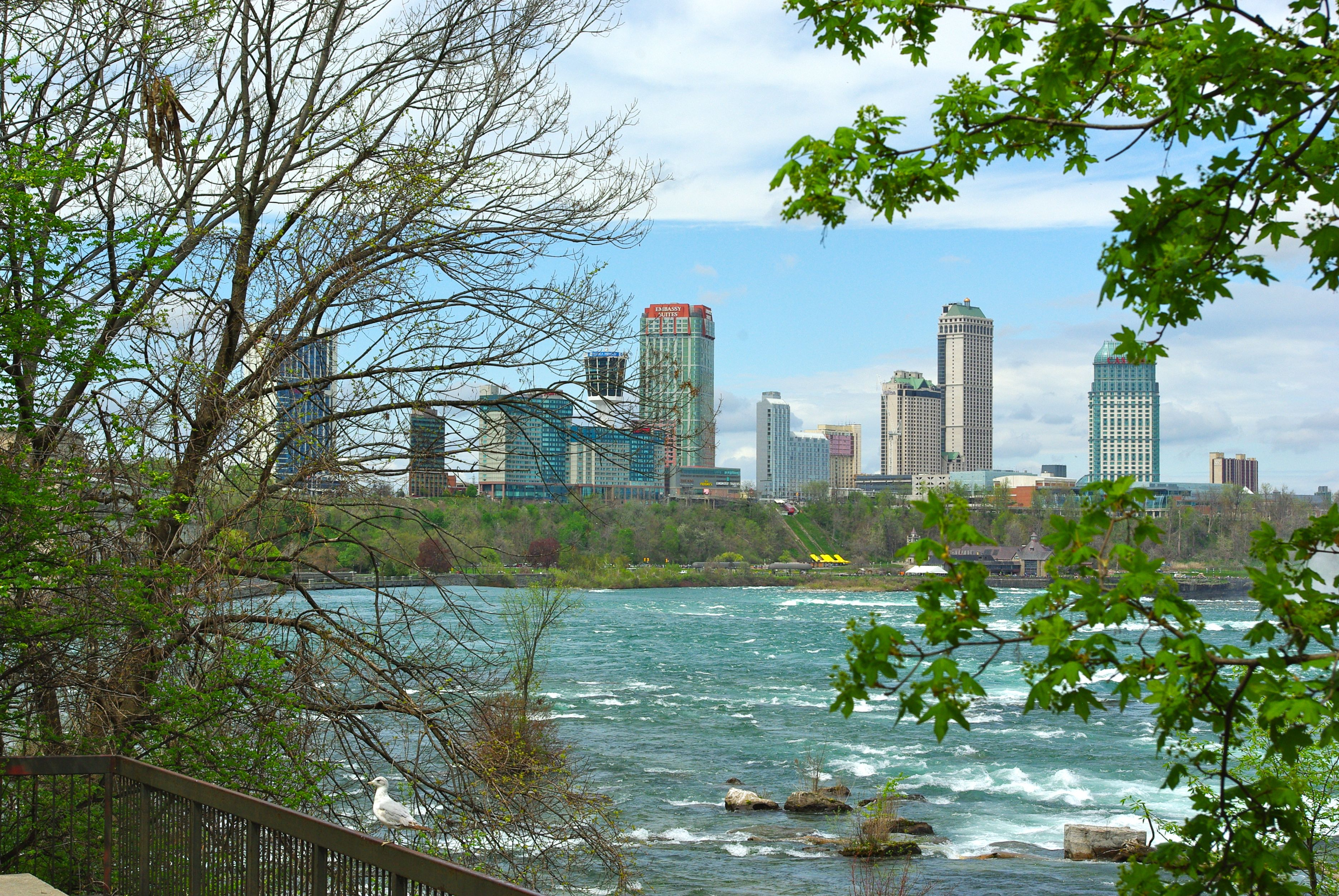 Niagara Falls, Ontario, skyline, May 2010. Other information Photo by George Garrigues.